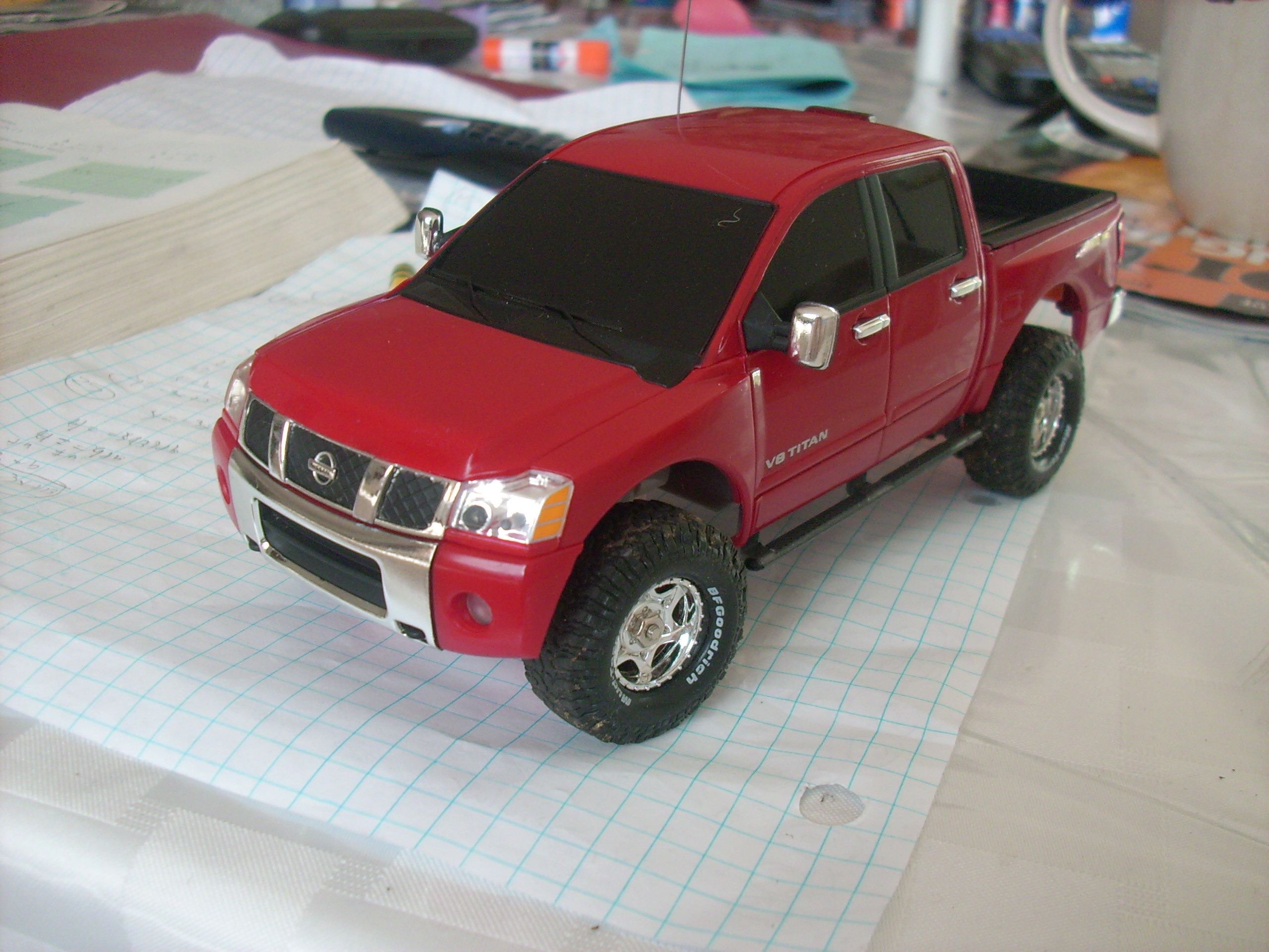 Xmods Nissan Titan with avaliable Off Road Kit